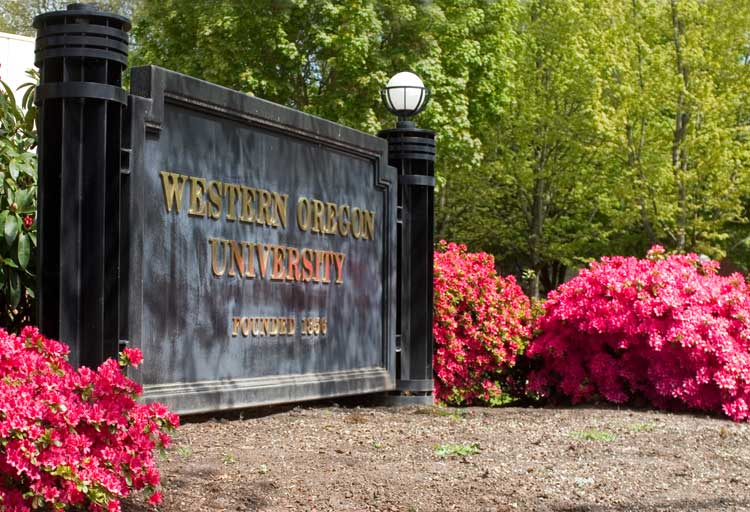 Western Oregon University entry on Monmouth Ave during spring